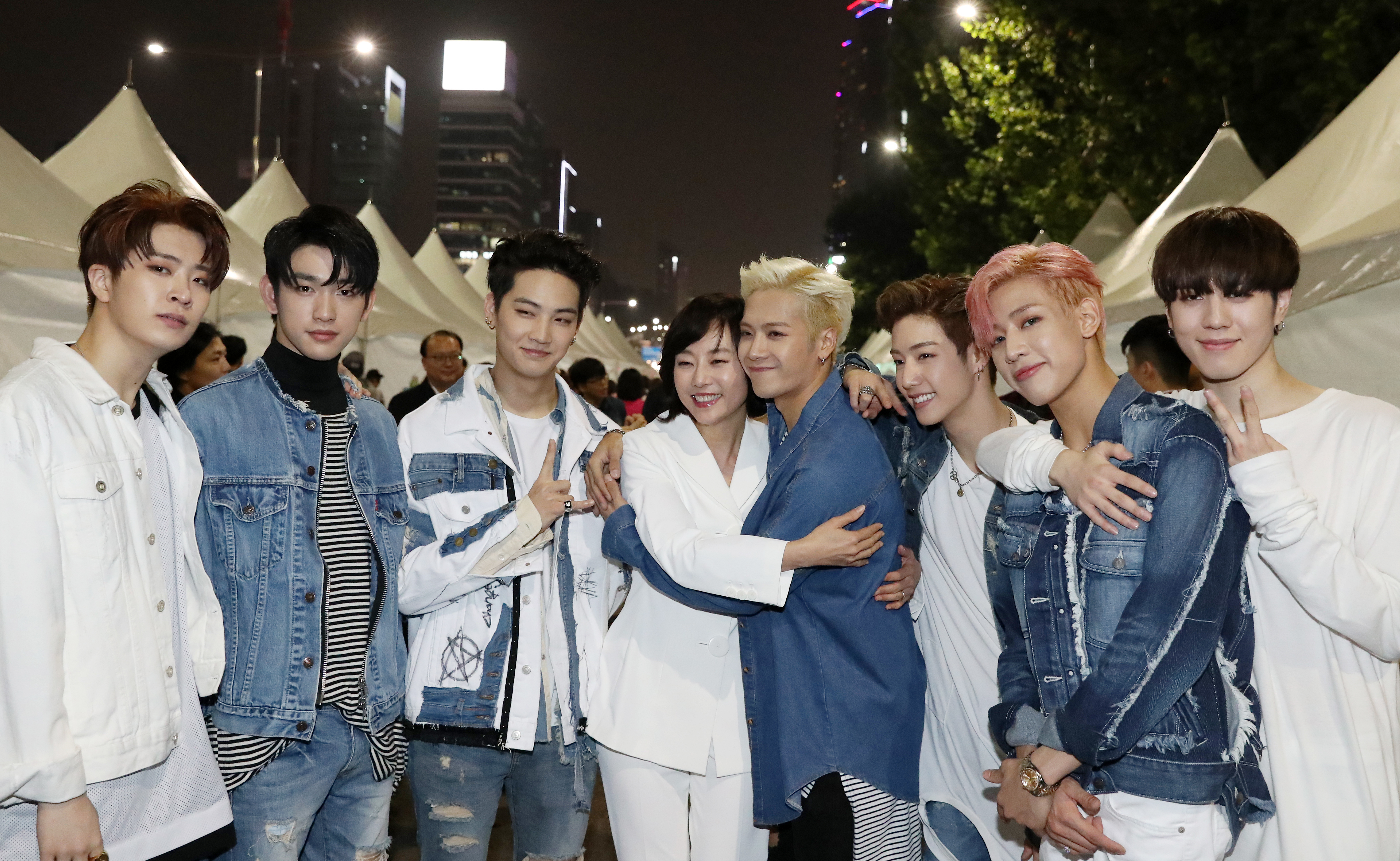 Korea Sale Festa Opening Ceremony GOT7 September 30, 2016 Yeongdongdae-ro, Gangnam-gu, Seoul Ministry of Culture, Sports and Tourism Korean Culture and Information Service ( Official Photographer : Jeon Han